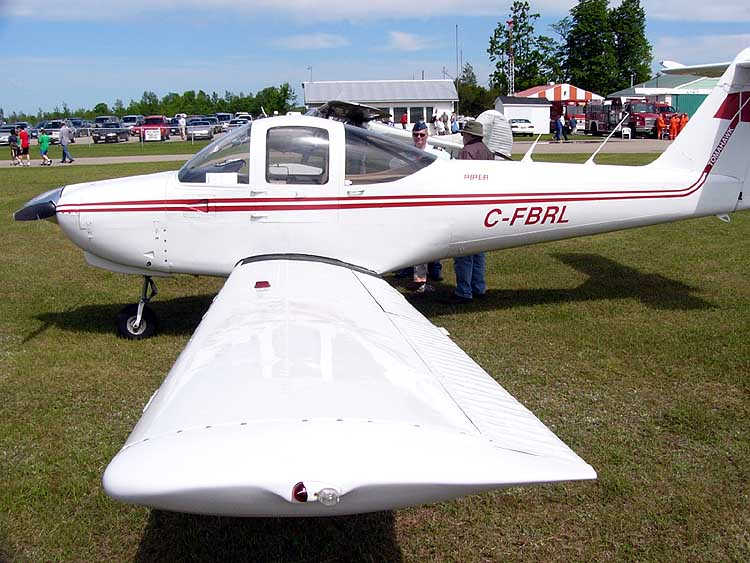 A Piper PA-38-112 Tomahawk (C-FBRL). I took this photo at Smiths Falls Ontario 04 June 2006